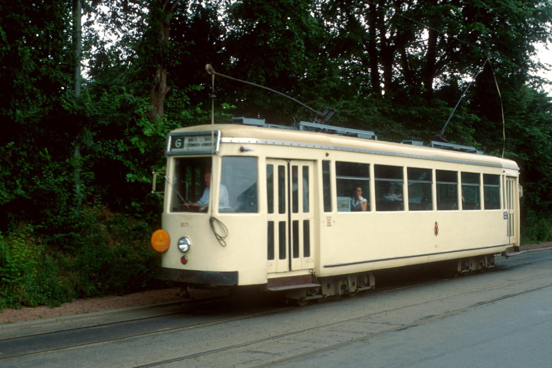 Keywords: SNCV, vicinal railways, rail, tram, electric motor car, type "N", Grimbergen, Belgium